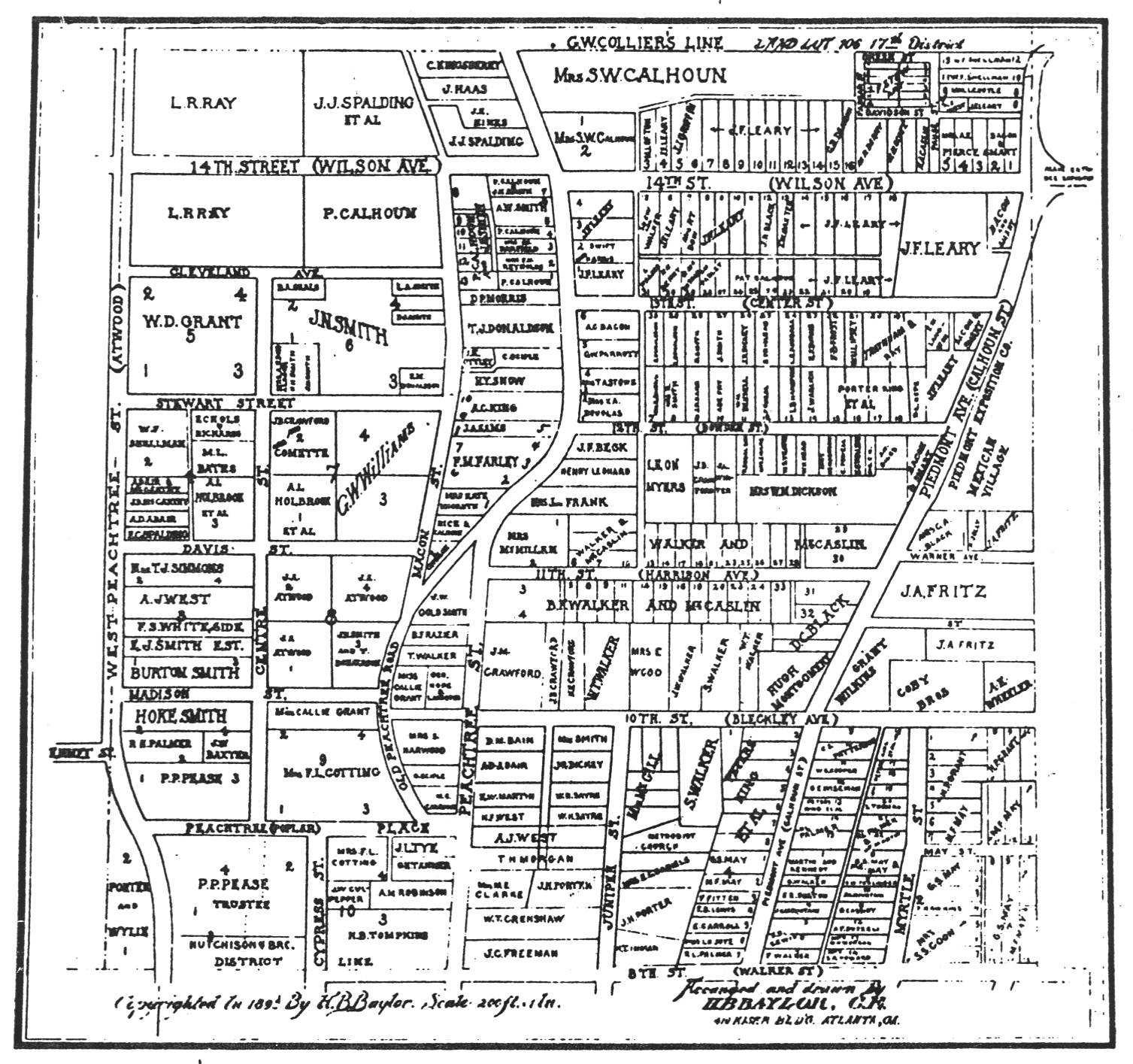 Detail from Baylor’s map of Land Lot 106, 1895